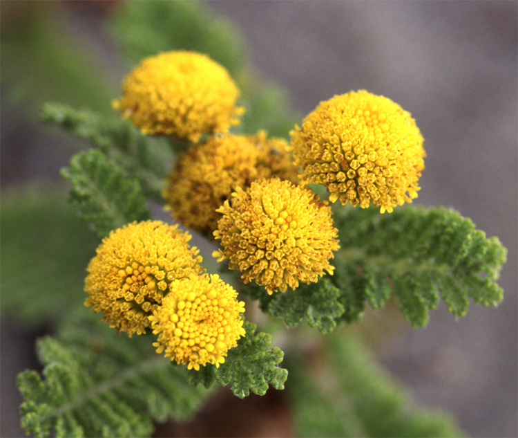 Tanacetum camphoratum at Humboldt Bay National Wildlife Refuge Complex, California, USA